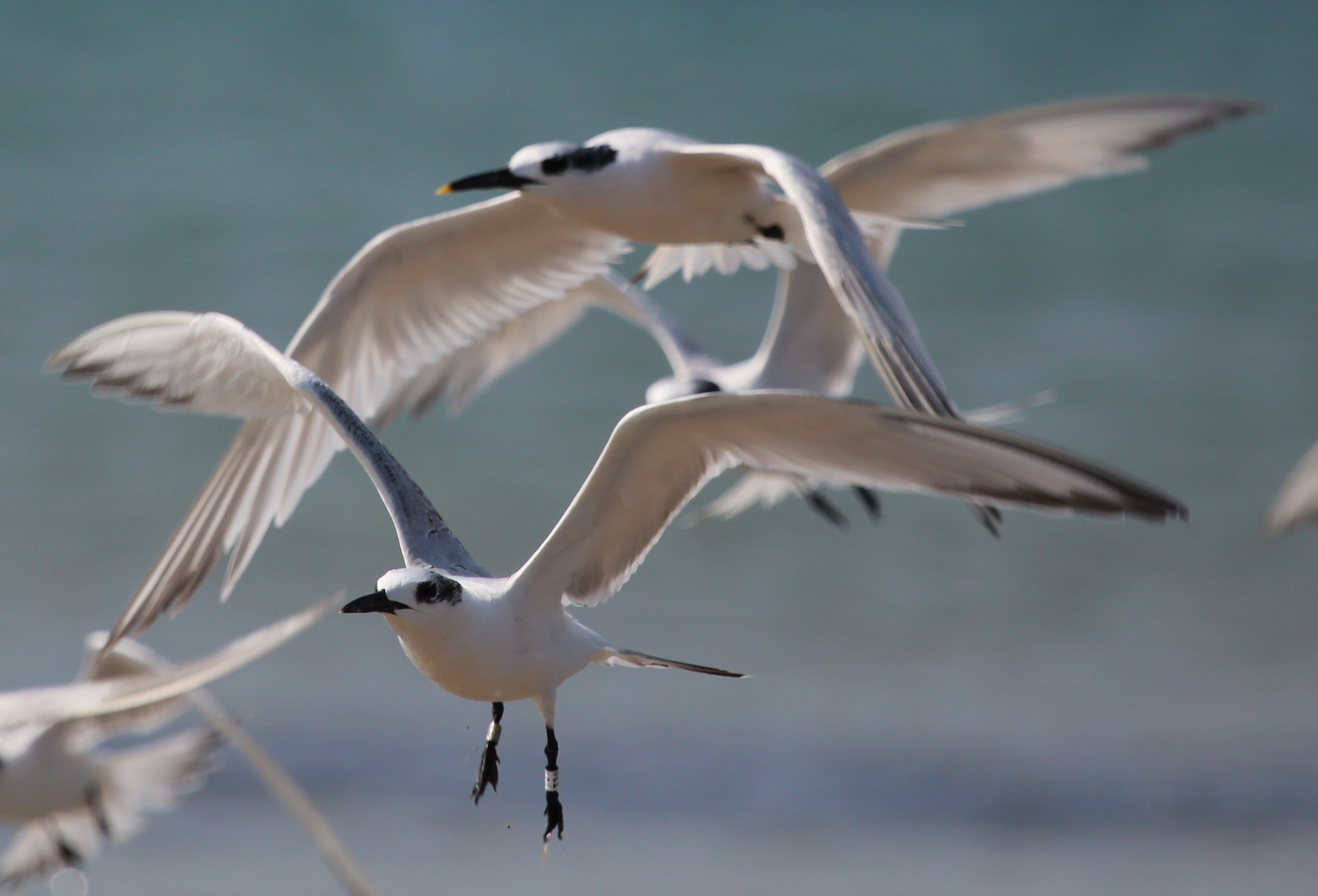 A colour-ringed juvenile Sandwich tern (Thalasseus sandvicensis) in Brittany, France.